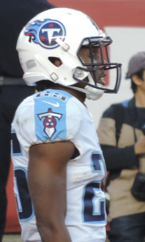 Adoree' Jackson with Tennessee Titans in 2017